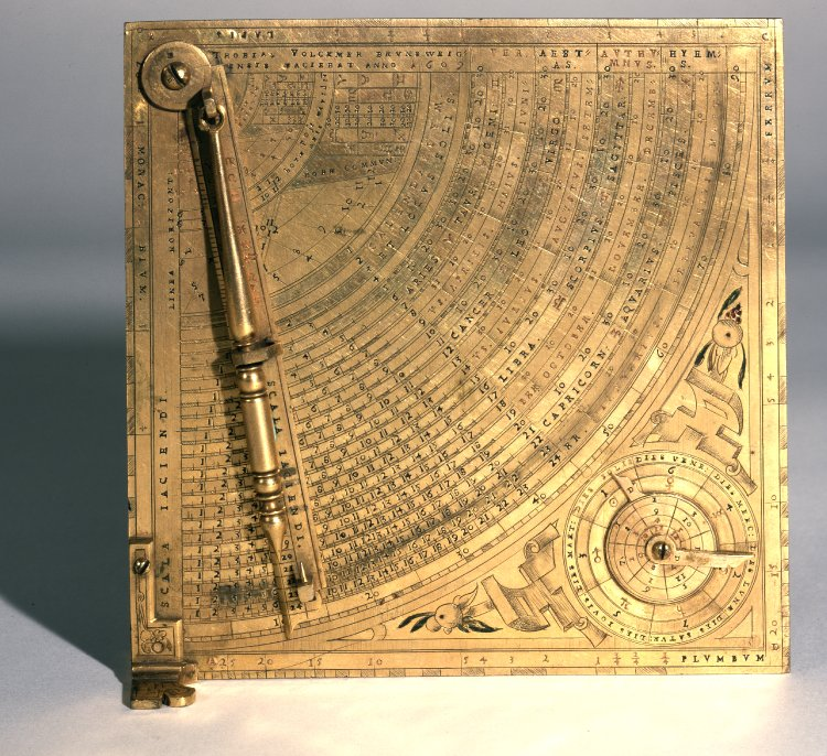 Golden quadrant. Made in Brunswick, Germany, by Tobias Volckmer in 1609. Punched engraved. Length: 153 millimetres (square).